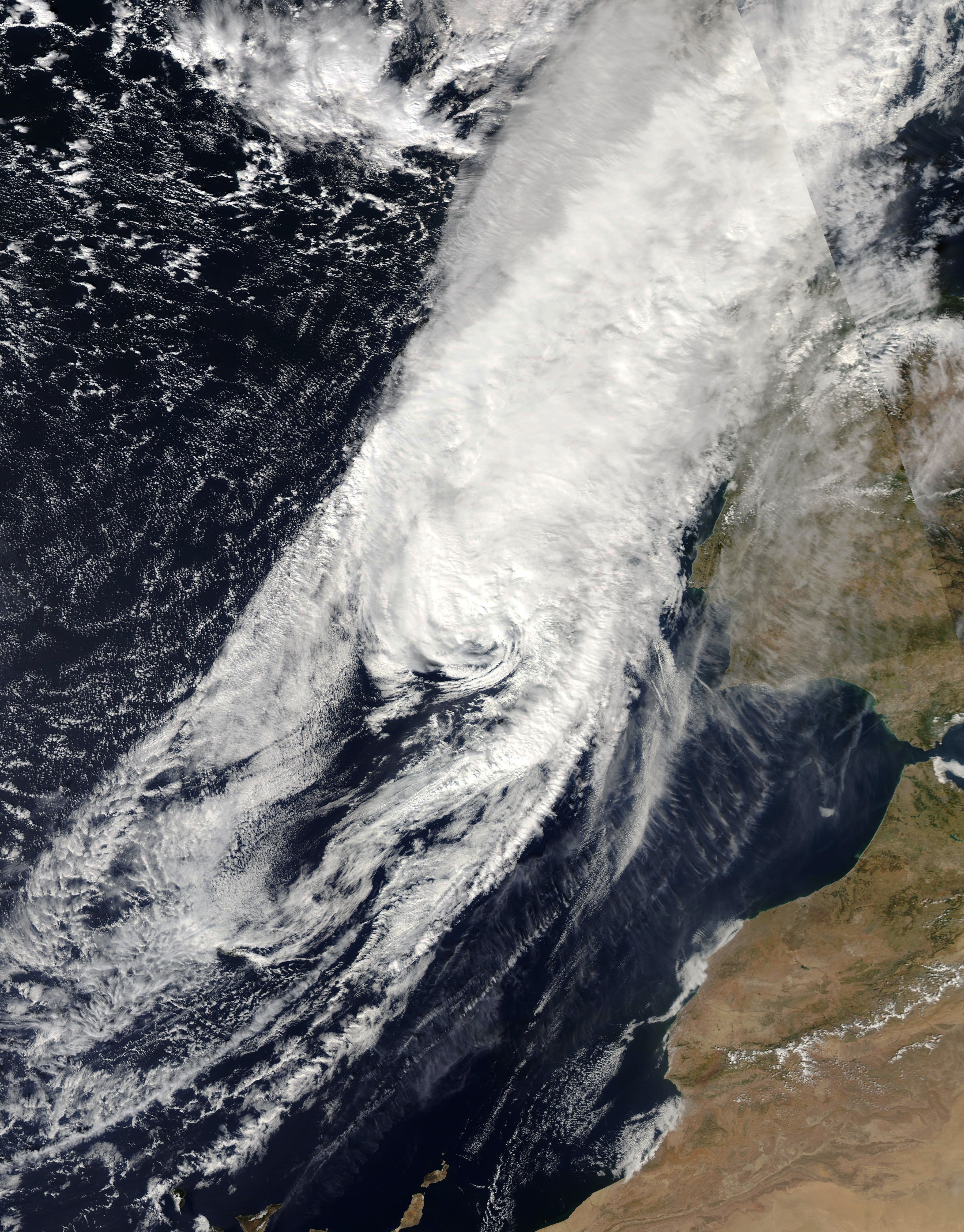 Post-Tropical Cyclone Leslie on October 13, 2018